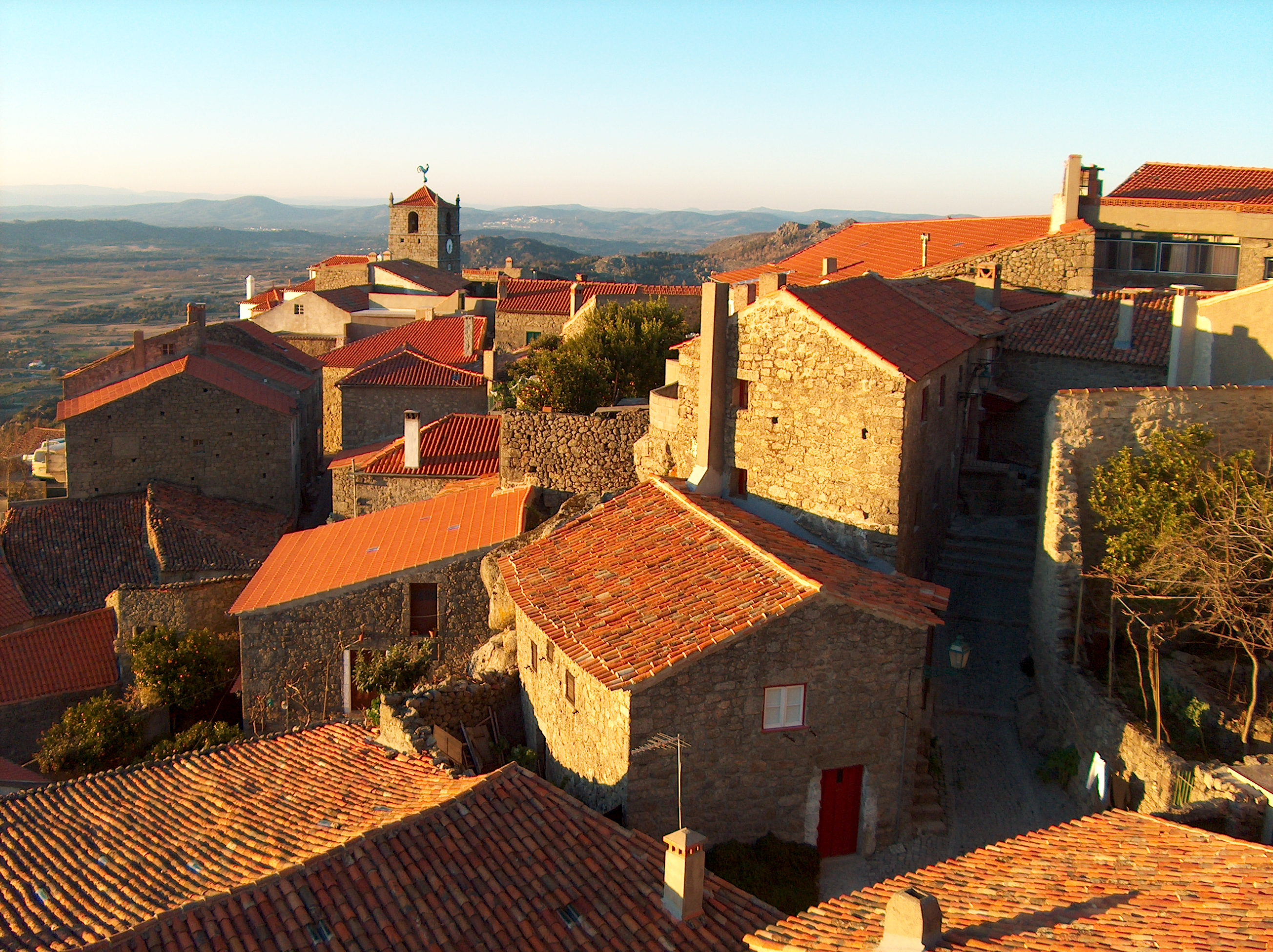 Monsanto (Portugal) and its granite houses.